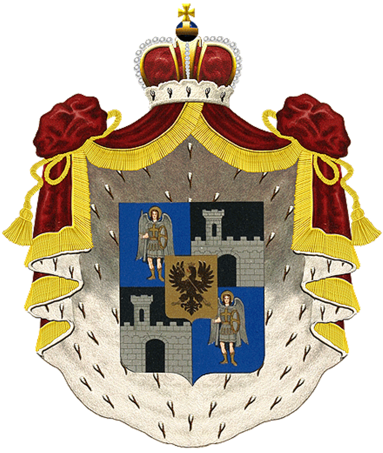 Coat of Arms of Scherbatov family